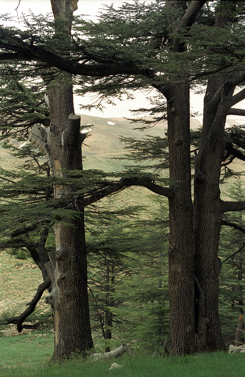 Cedars of God